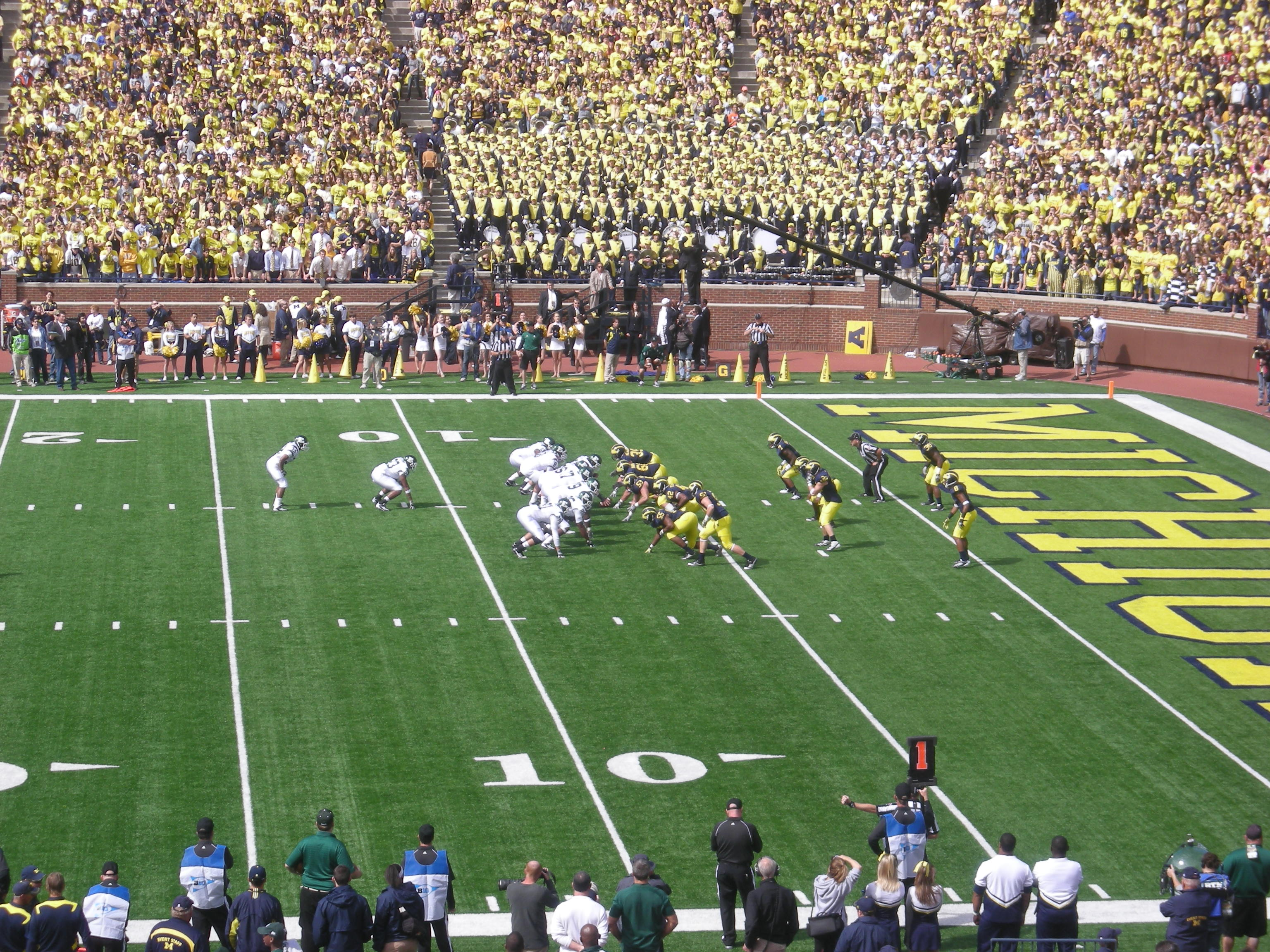 Eastern Michigan on offense during the Eastern Michigan Eagles vs. Michigan Wolverines football game at Michigan Stadium in Ann Arbor, Michigan (United States). Michigan won 31–3.